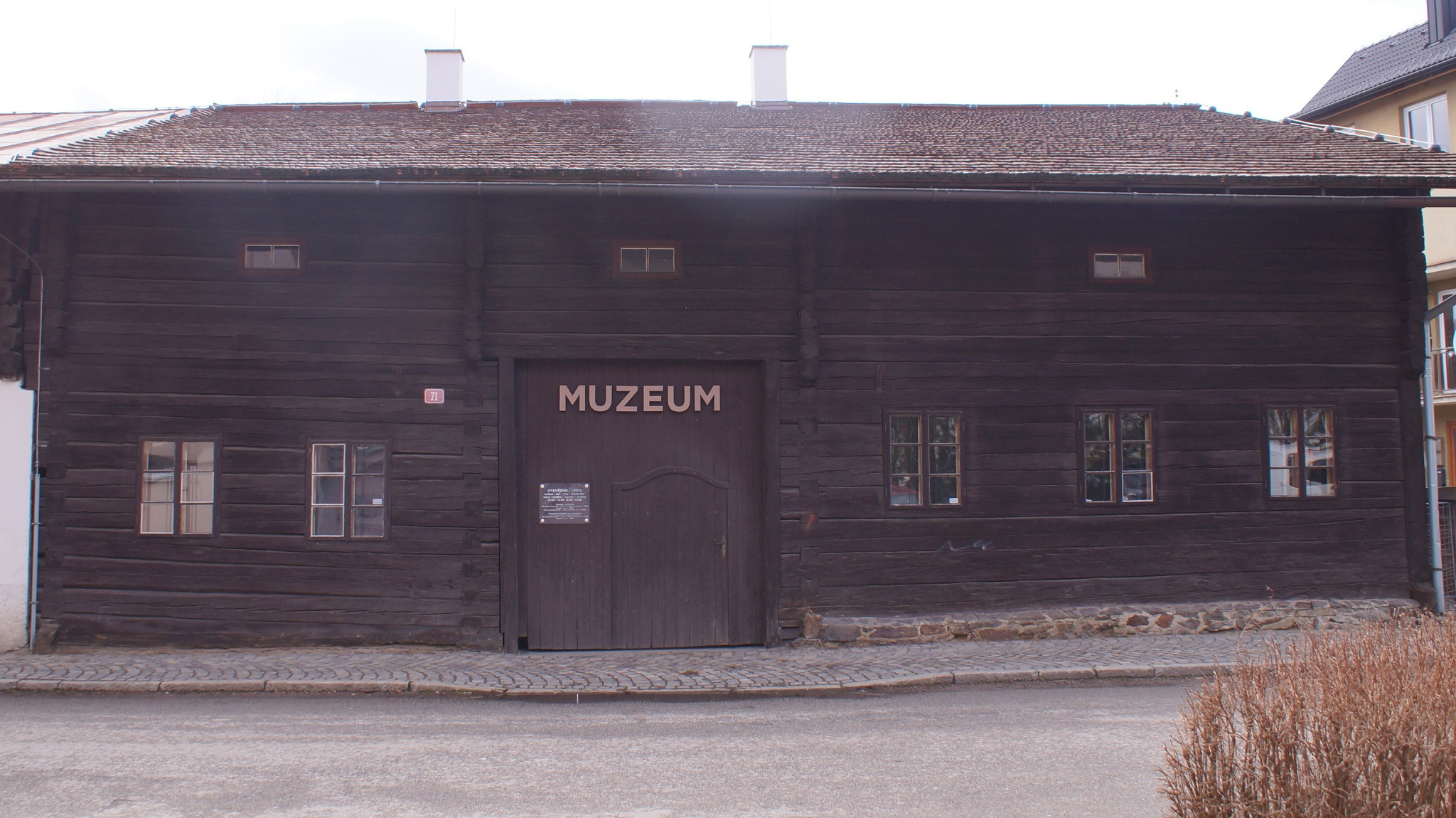 Volary museum, entrance, Česká čp. 71